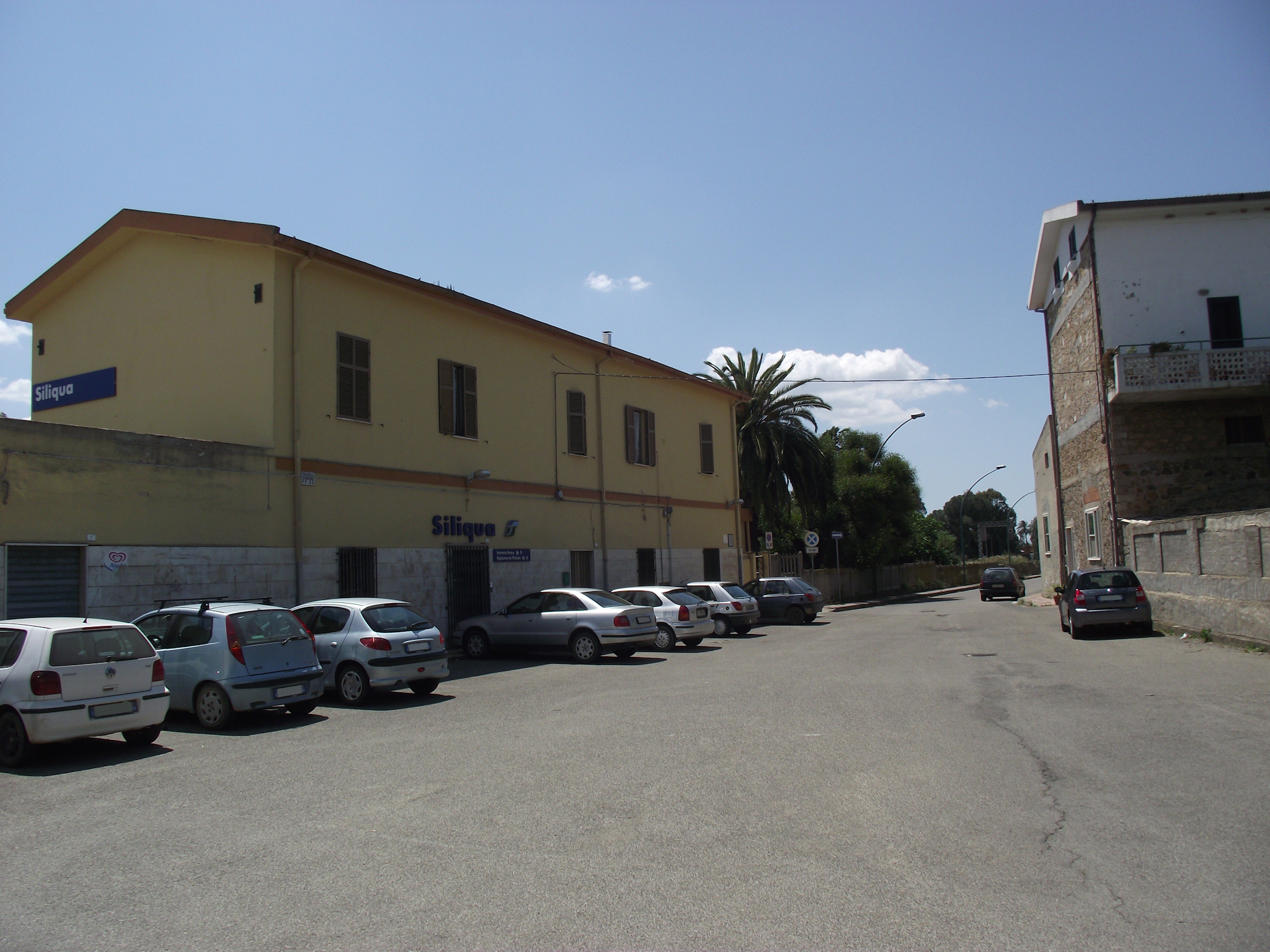 The FS railway station of Siliqua, in Sardinia, Italy